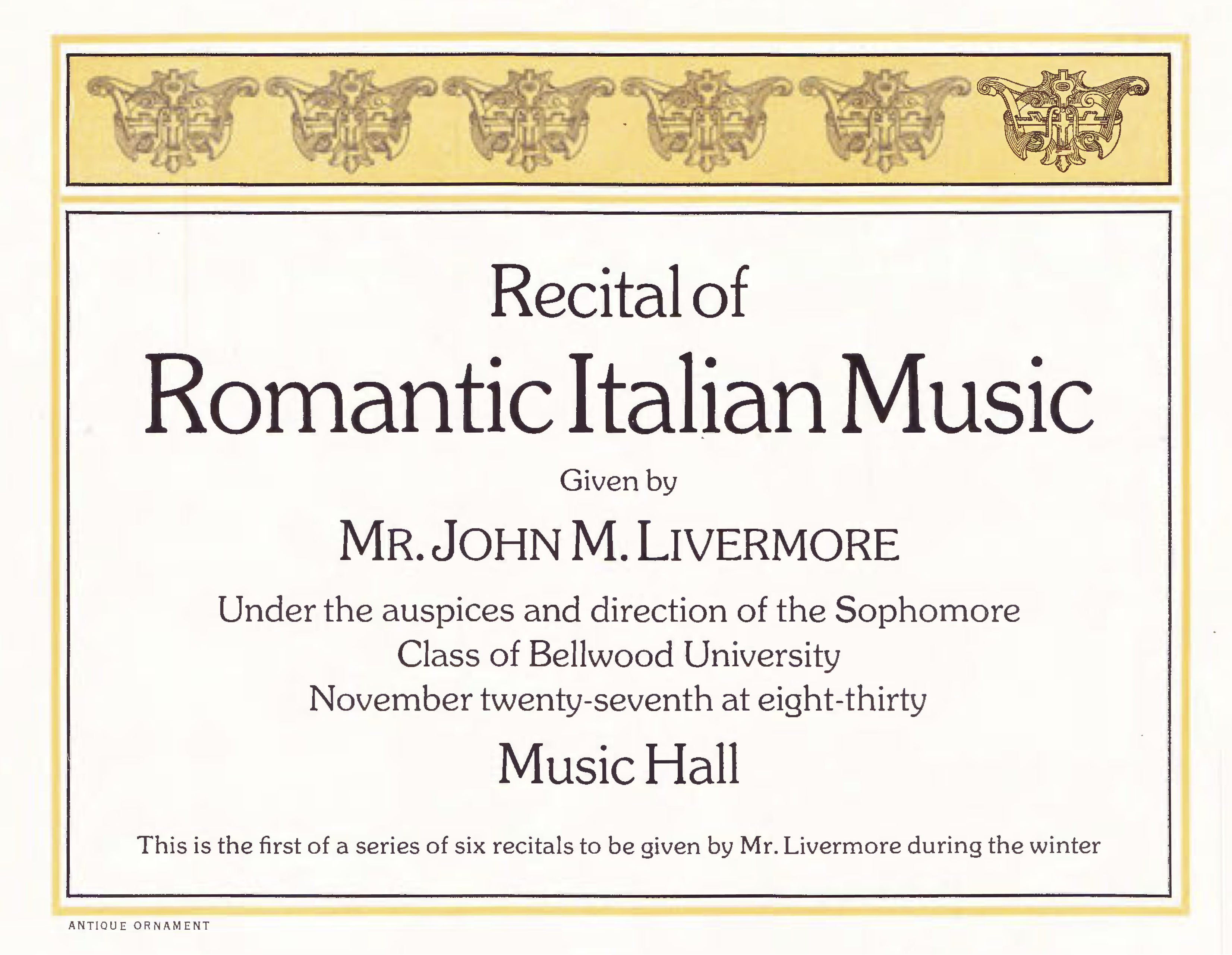 A specimen of the font Souvenir, created by American Type Founders. This specimen is shown in their 1923 specimen book on page 453. Souvenir became much better known in a phototypesetting reissue by ITC from the early 1970s onwards, making the design particularly strongly associated with the American graphic design of this era.